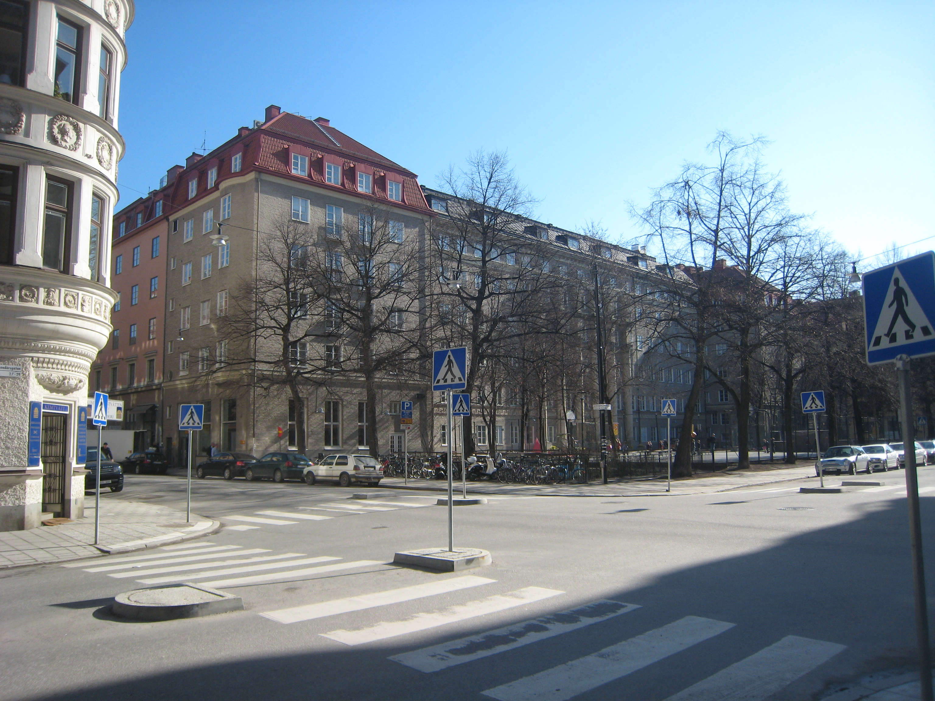 Carlssons skola